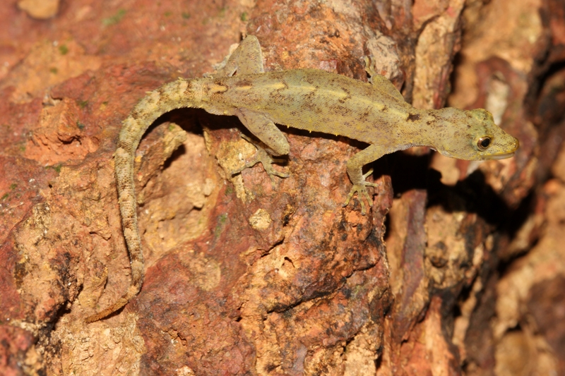 This species is described from Amboli town, Sindhudurg district, Maharashtra, India.